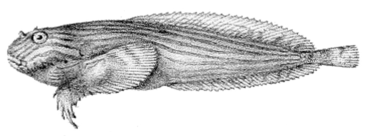 Liparis liparis